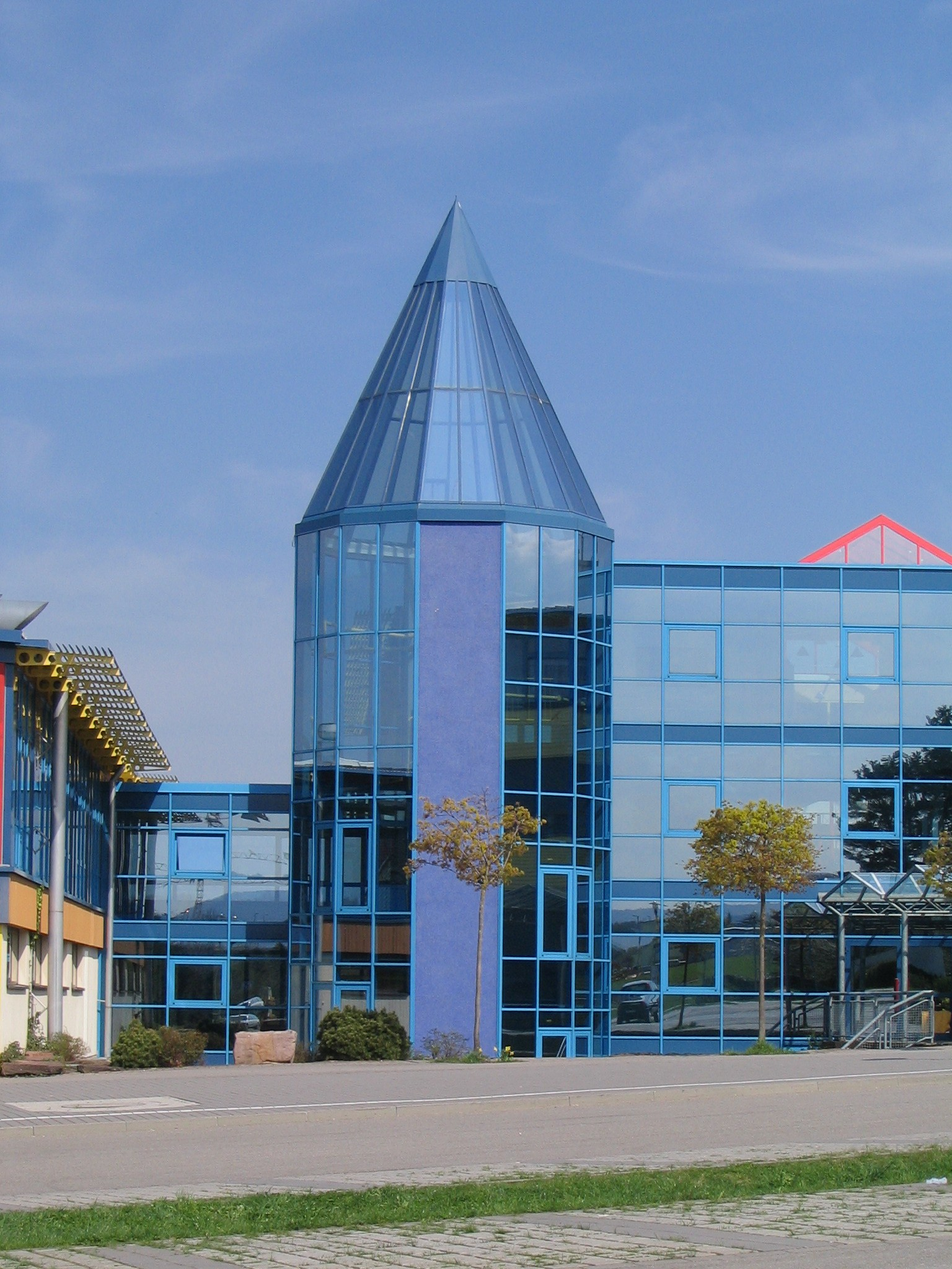 Bleistiftturm (pencil tower) at the east-side of the Wilhelm-Ganzhorn-Schule (secondary school) in Straubenhardt, Germany